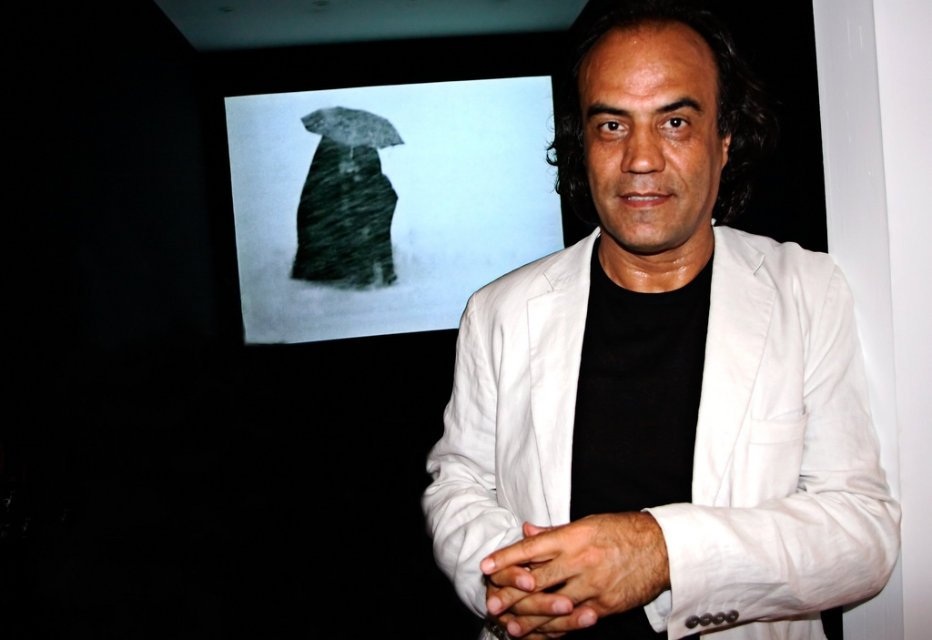 Seifollah Samadian, Iranian artist, in Geopoéticas - Cines del Sur 2007